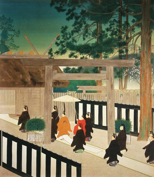 The Emperor at the Grand Shrine of Ise by Matsuoka Eikyū